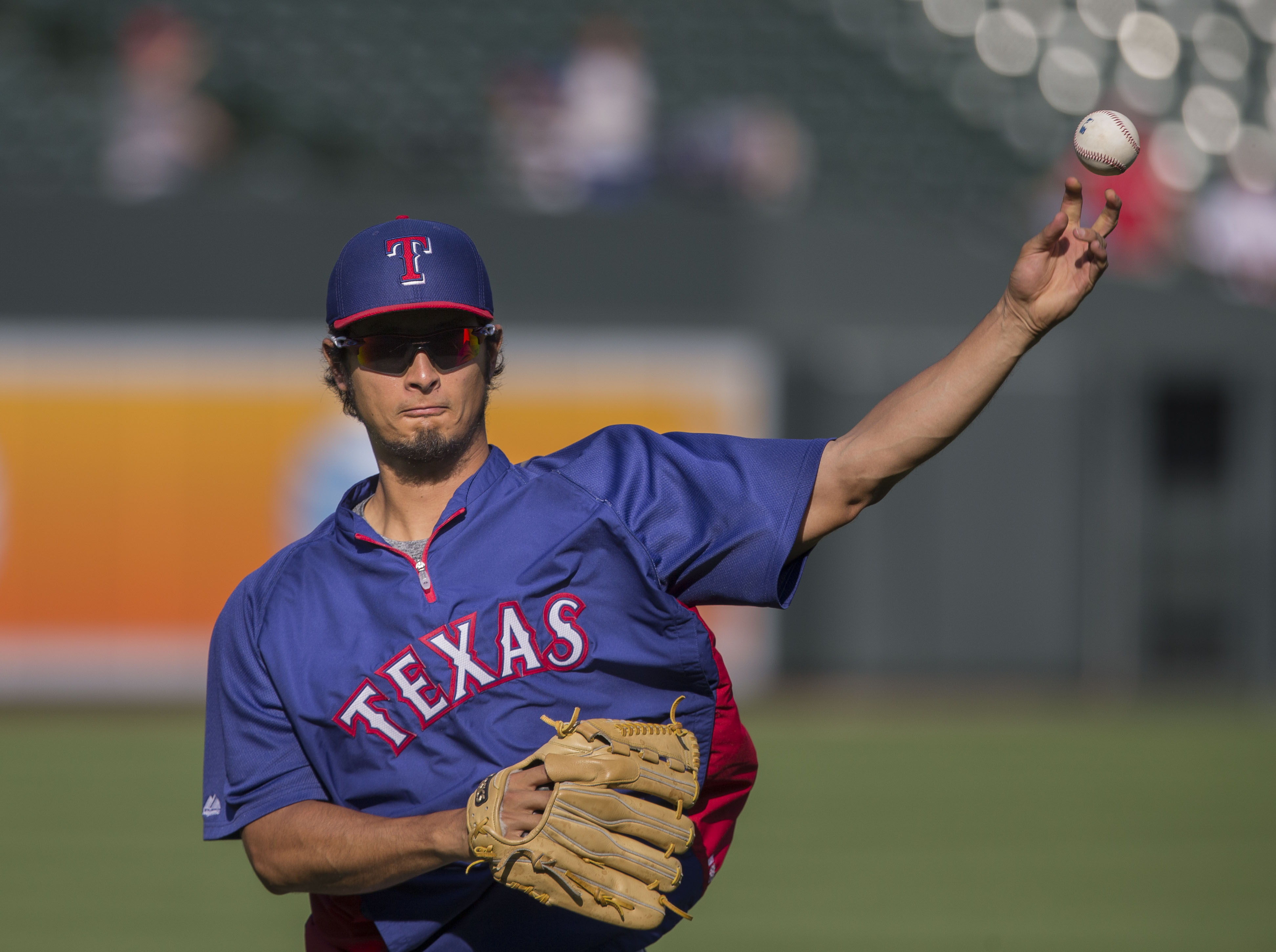 Yu Darvish